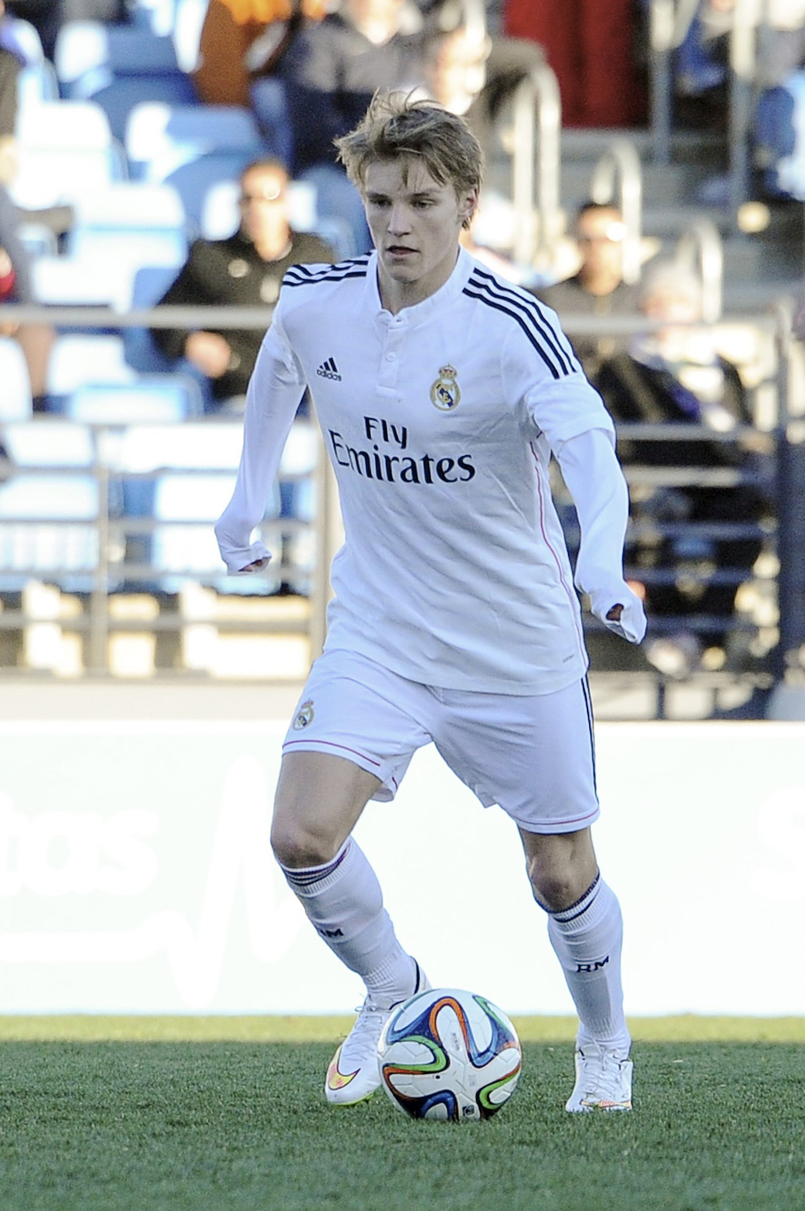 Real Madrid Castilla's Martin Ødegaard during 2014-15 Spanish Second Division match between Real Madrid Castilla and Athletic Club B at Alfredo Di Stefano stadium in Madrid, Spain. February 08, 2015.